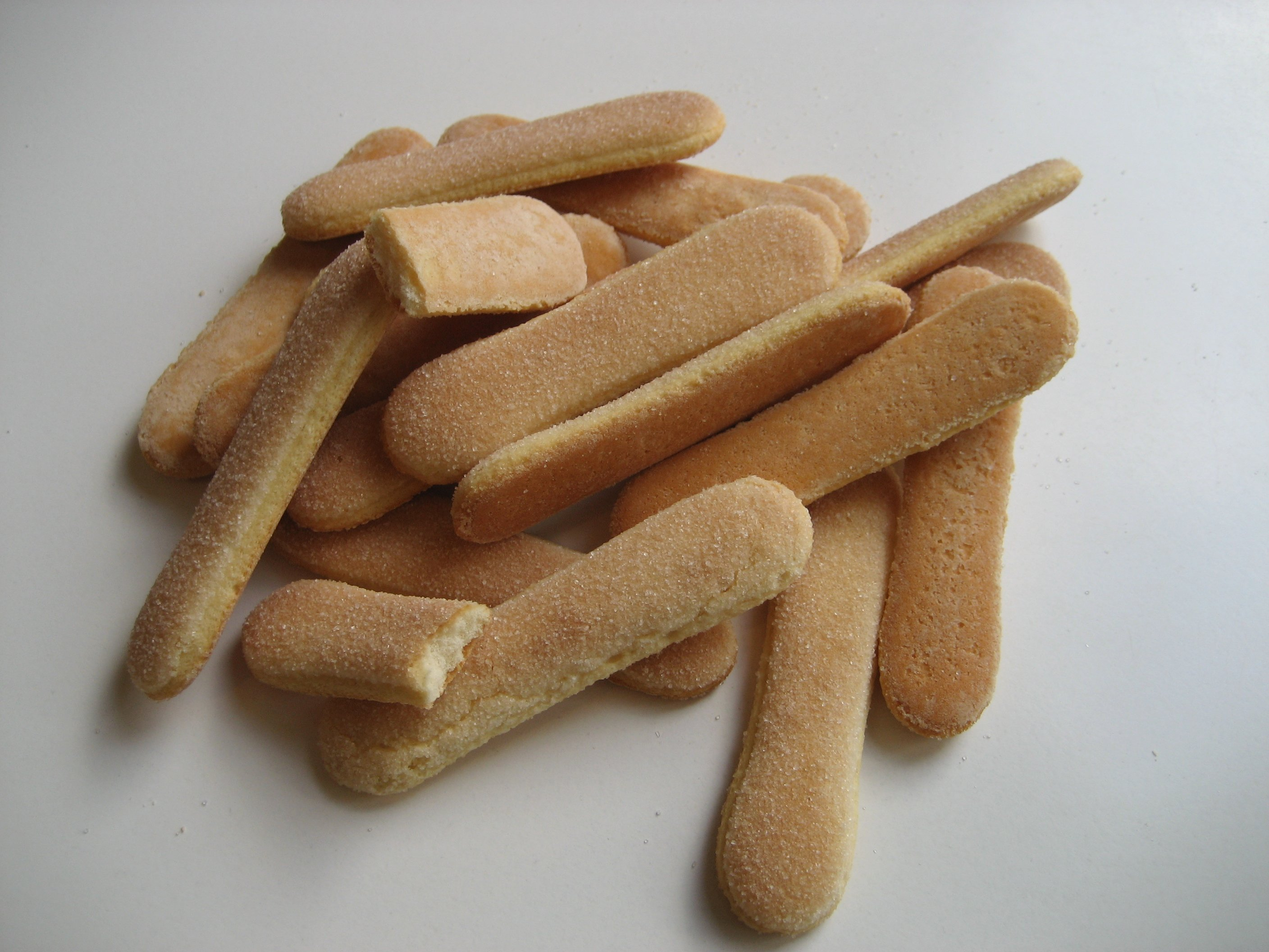 Lady Fingers